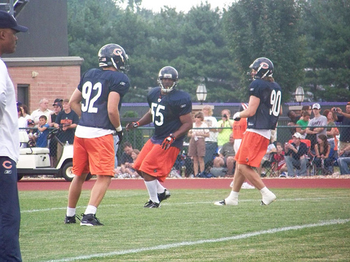 Hunter Hillenmyer and Lance Briggs practice drills